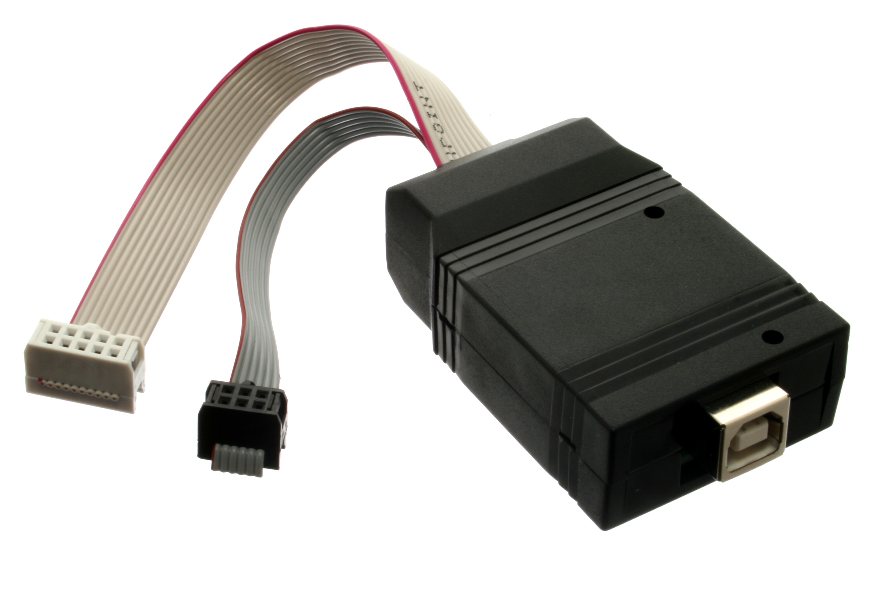 Adafruit TinyISP AVR Programmer.